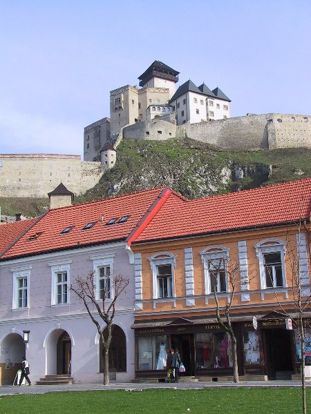 Well-distinguishable wet part of the wall, which crumbled down later. (Trenčín, Slovakia)